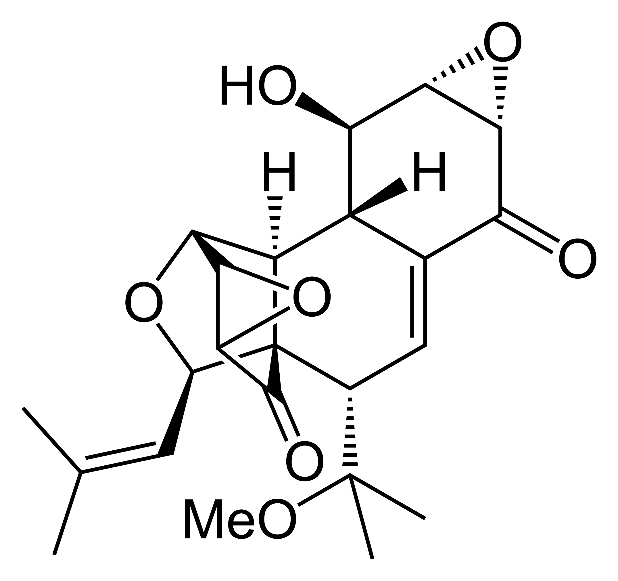 Skeletal formula of (+)-hexacyclinol, based on the crystal structure reported in Acta Cryst. (2010) E66, o342–o343. Structure drawn in ChemBioDraw Ultra 12.0.